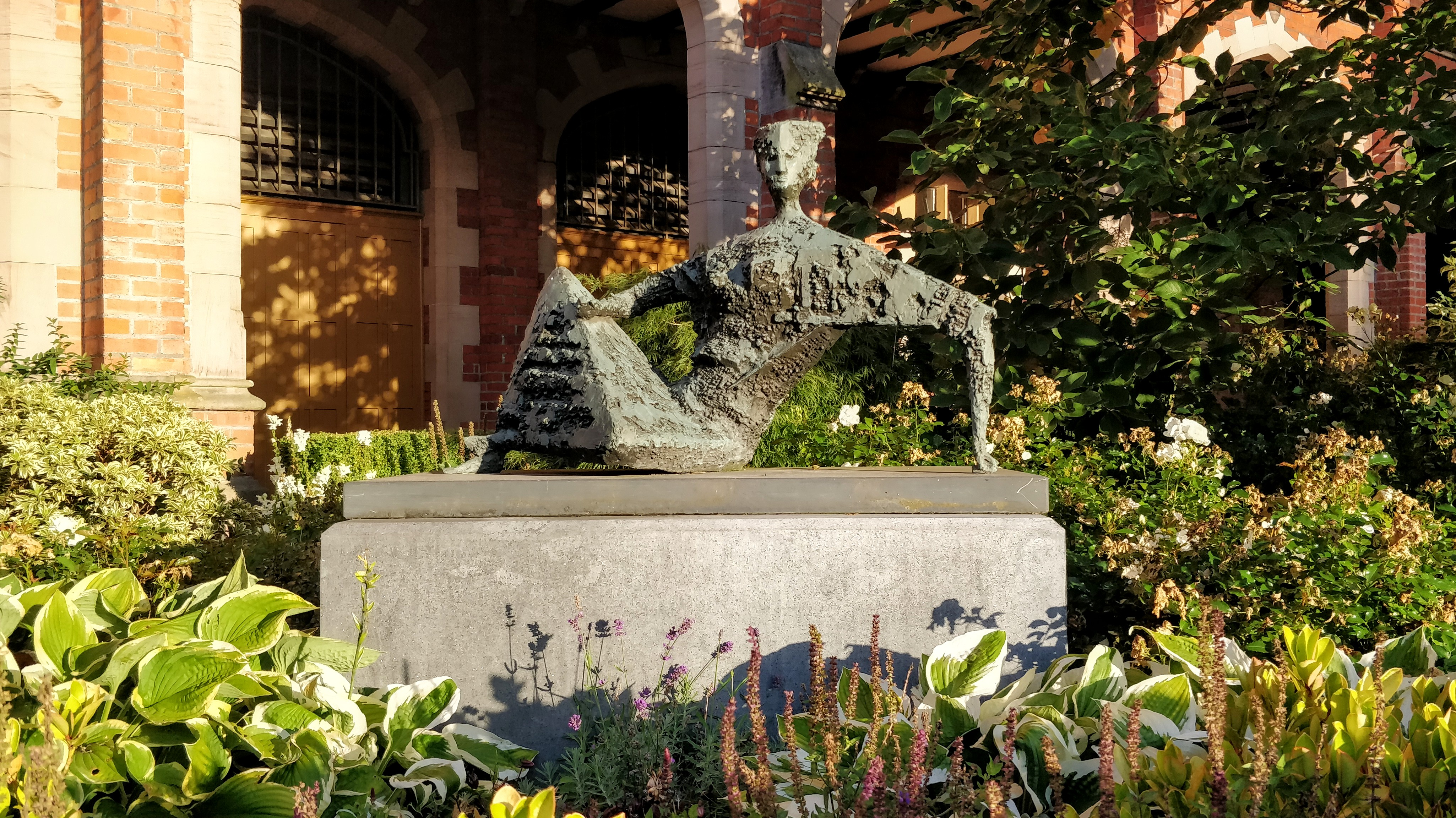 Reclining Figure Sculpture in Queen's University Belfast by Frederick Edward McWilliam